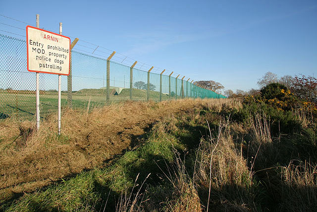 The security fence at MOD Eastriggs By a coastal path near Torduff Point.